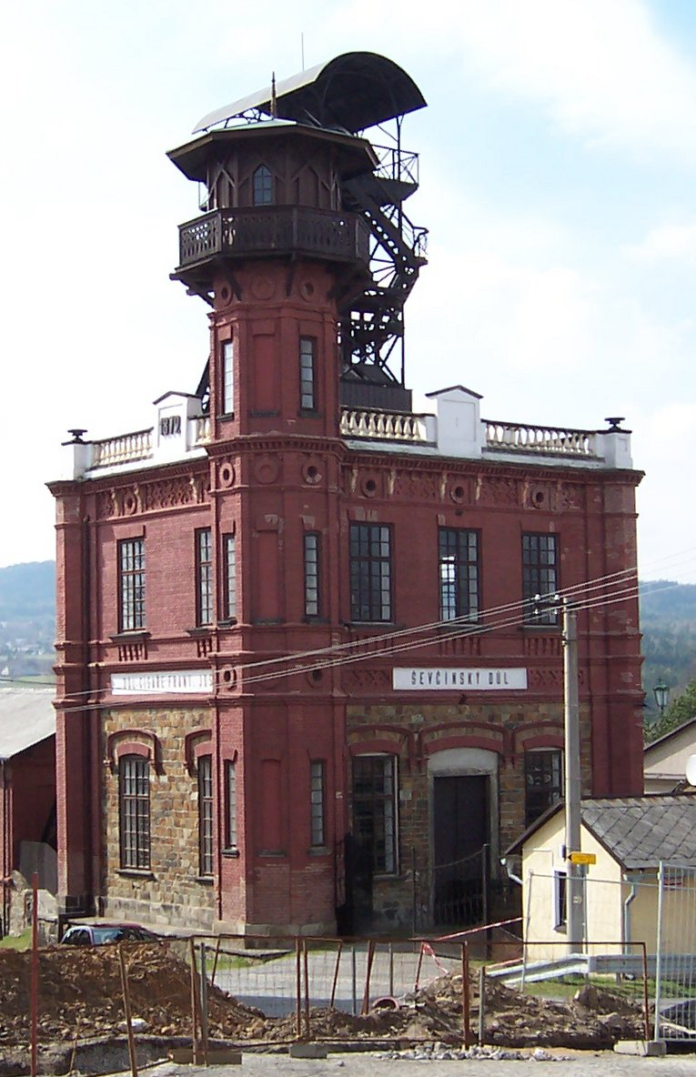 A shaft building of the Ševčín shaft in Příbram - Březové Hory.